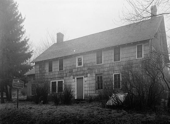 Obadiah Smith House, 853 Saint Johnland Road, San Remo, Smithtown (Suffolk County, New York) cropped This file comes from the Historic American Buildings Survey (HABS), Historic American Engineering Record (HAER) or Historic American Landscapes Survey (HALS). These are programs of the National Park Service established for the purpose of documenting historic places. Records consist of measured drawings, archival photographs, and written reports. When reusing please credit: Library of Congress, Prints & Photographs Division, NY,52-SMITO,4-1 This tag does not indicate the copyright status of the attached work. A normal copyright tag is still required. See Commons:Licensing. This work is in the public domain in the United States because it is a work prepared by an officer or employee of the United States Government as part of that person’s official duties under the terms of Title 17, Chapter 1, Section 105 of the US Code. Note: This only applies to original works of the Federal Government and not to the work of any individual U.S. state, territory, commonwealth, county, municipality, or any other subdivision. This template also does not apply to postage stamp designs published by the United States Postal Service since 1978. (See § 313.6(C)(1) of Compendium of U.S. Copyright Office Practices). It also does not apply to certain US coins; see The US Mint Terms of Use. This file has been identified as being free of known restrictions under copyright law, including all related and neighboring rights. Object location40° 53′ 38″ N, 73° 13′ 47″ W